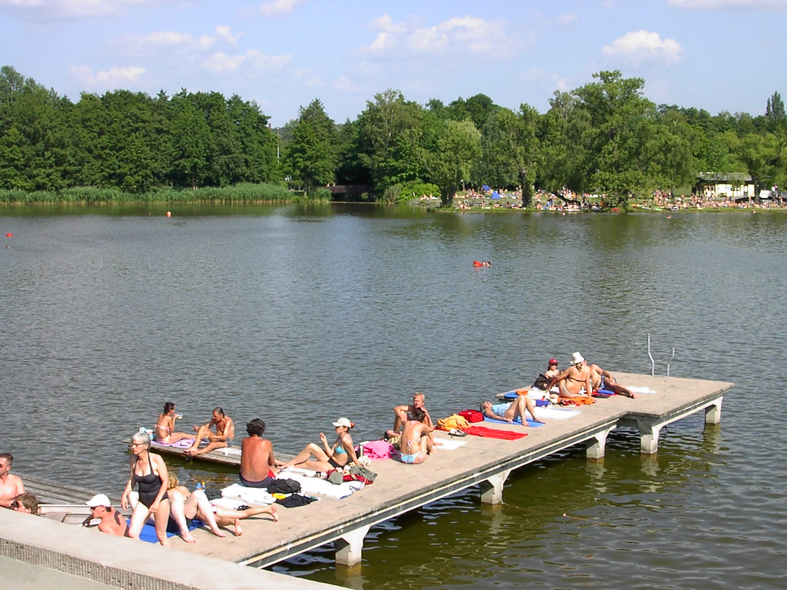 Swimming lake Grosser Woog in Darmstadt City, Germany